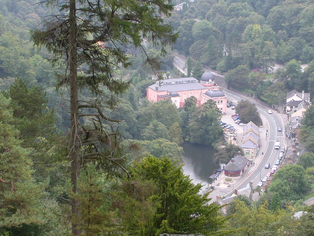 Matlock Bath in Derbyshire, England. Photographed from the Heights of Abraham cable car, and showing the River Derwent, the A6 road and the Peak District Mining Museum. For more information see the Wikipedia articles Matlock Bath, River Derwent (Derbyshire), A6 road (England), Peak District Mining Museum and Heights of Abraham.